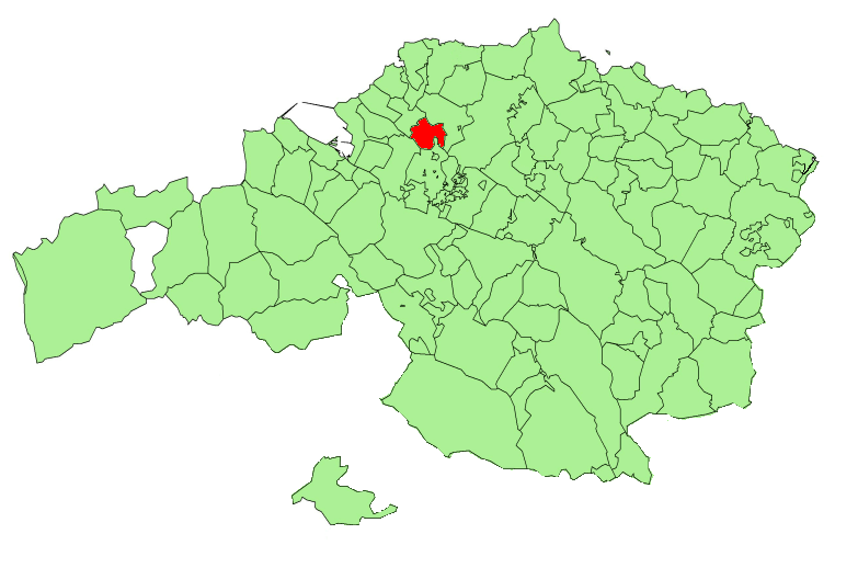 Laukiz municipality in the province of Biscay